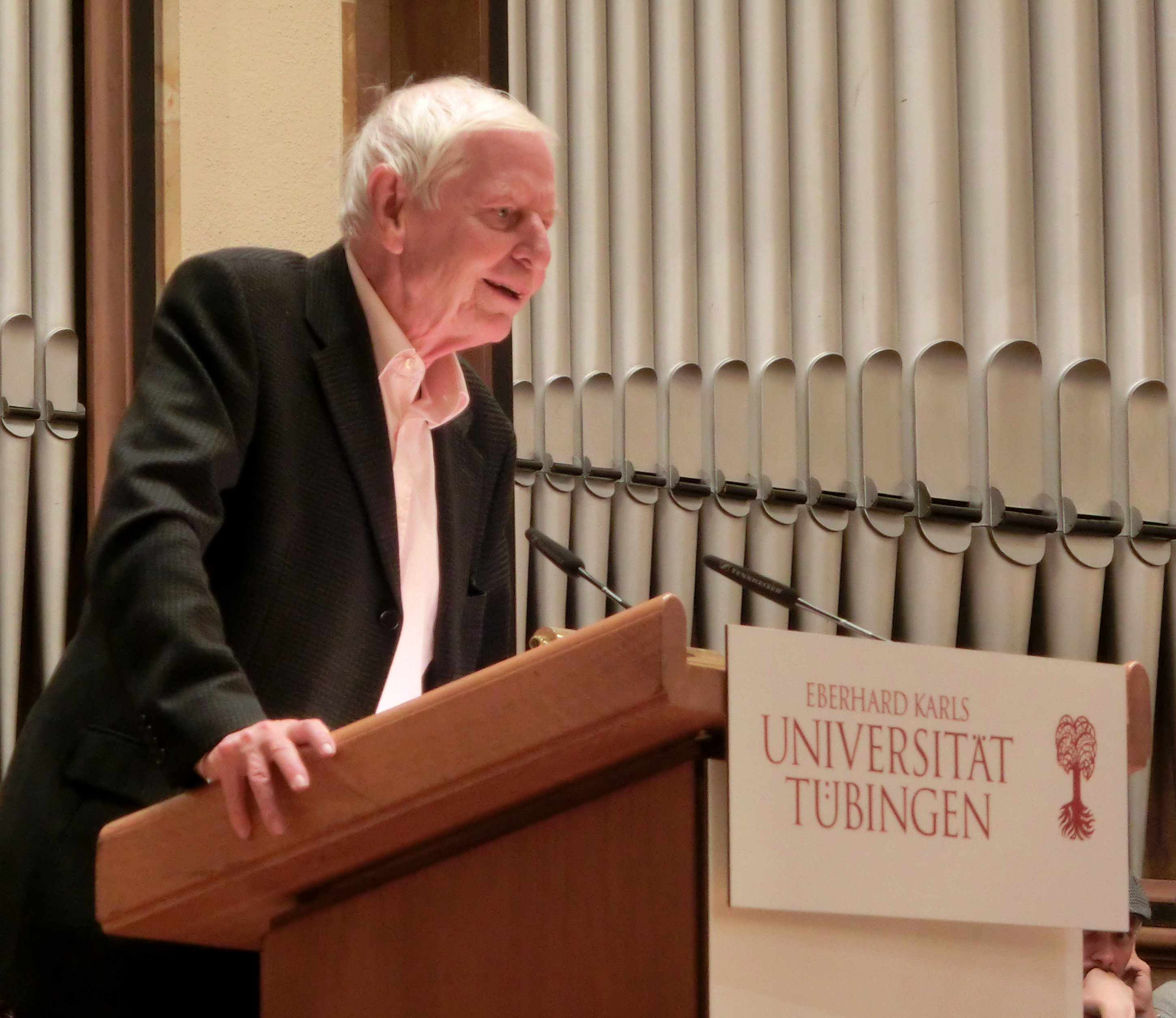 Hans Magnus Enzensberger (* 1929), German poet, author, translator and editor, on 18th November 2013 during a lecture at the University of Tübingen.